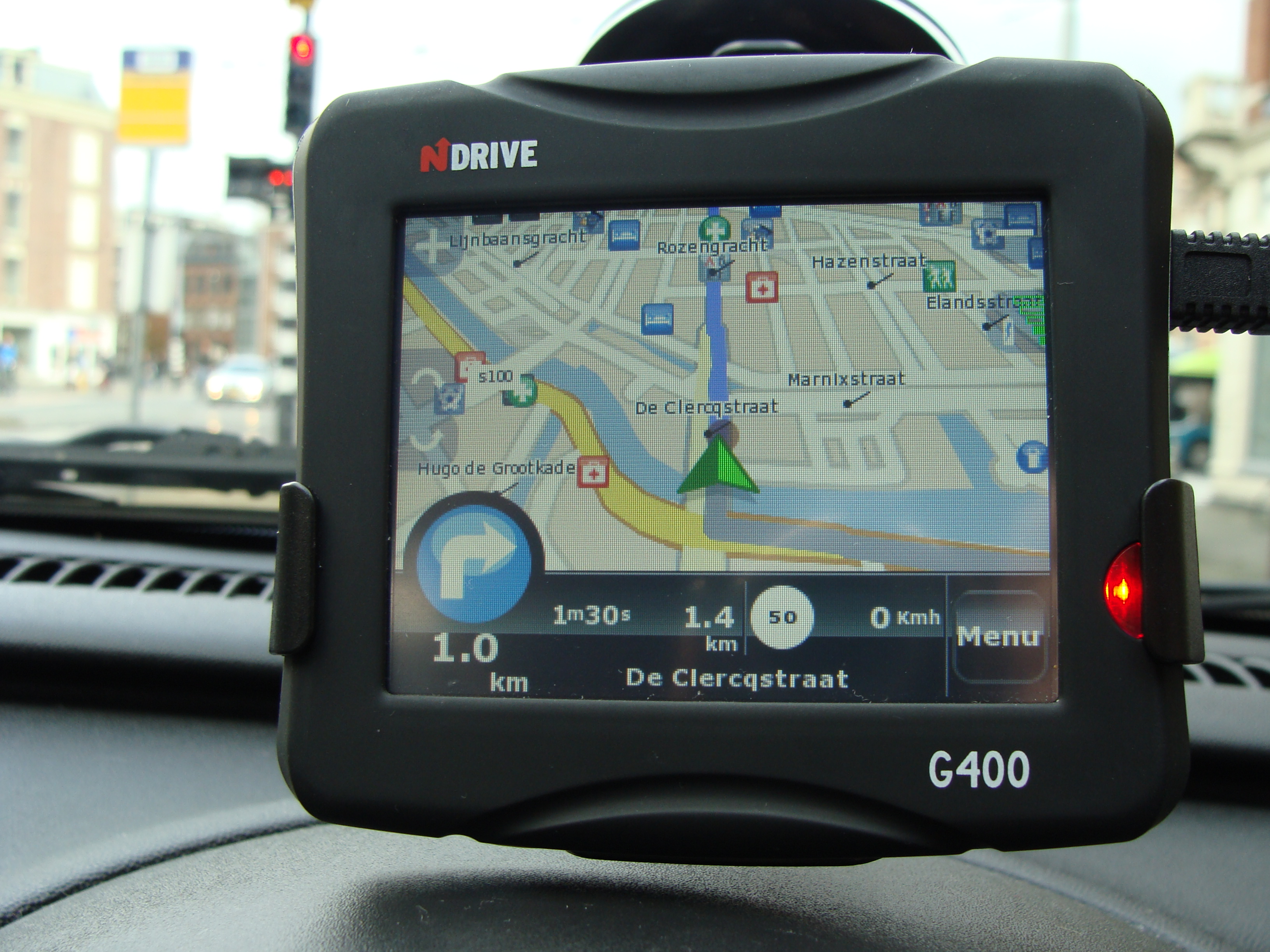 NDrive GPS «NDrive is a Portuguese brand of automotive navigation systems, including both stand-alone units and software for personal digital assistants and mobile telephones»